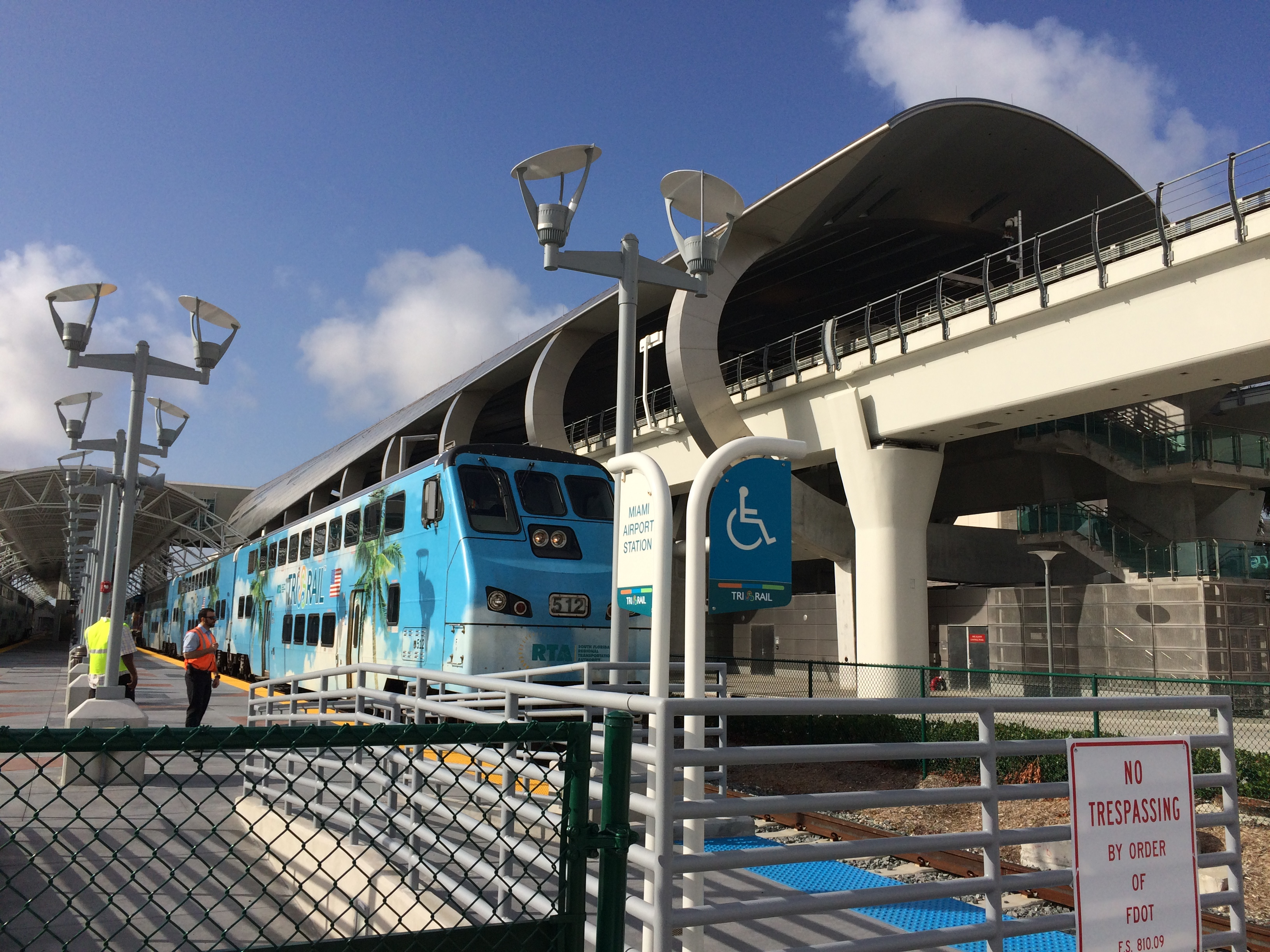 not yet open Tri-Rail platforms of the Miami Airport train station